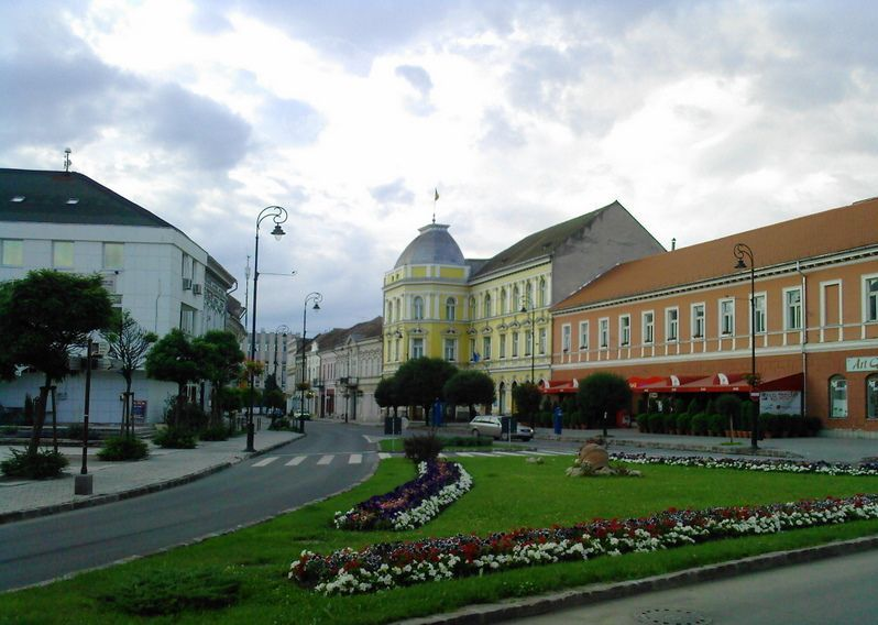 View of Sf. Gheorghe, Covasna County